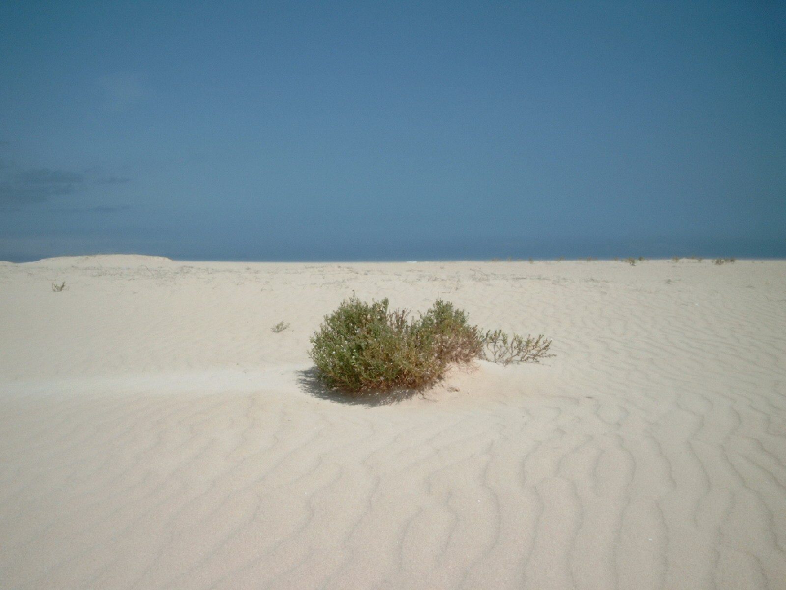 Dunes near Corralejo